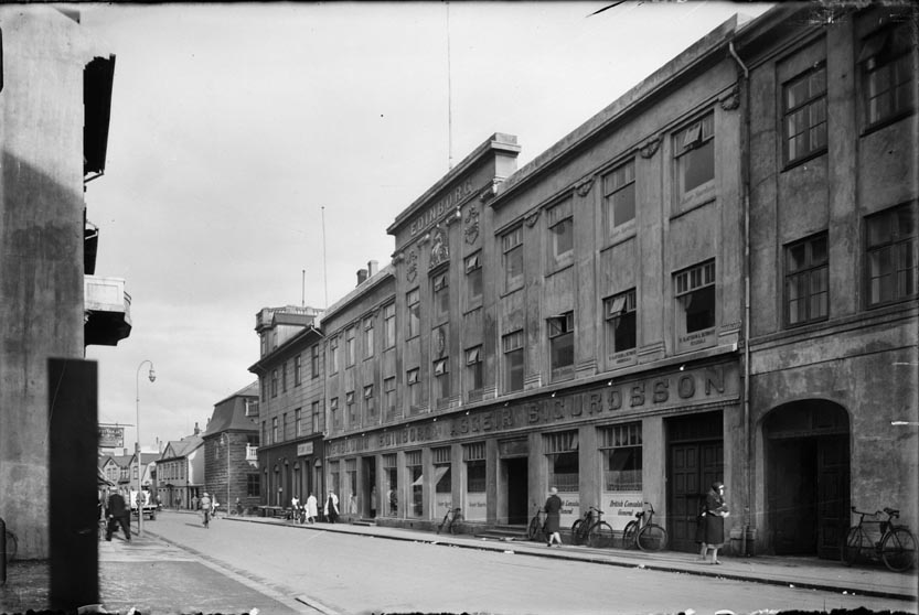 Um 1930 Borgarmynd, Hafnarstræti 10-12. Verslunin Edinborg, Ásgeir Sigurðsson. Breska ræðismannsskrifstofan H.Ólafsson & Bernhöft, vörubifreið og fólk á reiðhjólum. Reykjavík, Iceland, City scape, Hafnarstræti 10-12. Edinborg store. Ljósmyndari / Photographer: Magnús Ólafsson Format: Glerplata / Glass negatives. 10x15 cm. Höfundarréttur / Rights Info: Enginn þekktur höfundarréttur /No known restrictions on publication. Geymsla / Repository: Ljósmyndasafn Reykjavíkur / Reykjavík Museum of Photography, Tryggvagata 15, 6. Hæð / 6th floor Númer myndar / Call Number: MAÓ 262 Myndavefur Ljósmyndasafnsins / Reykjavík Museum of Photography´s photoweb: ljosmyndasafn.reykjavik.is/fotoweb/Grid.fwx